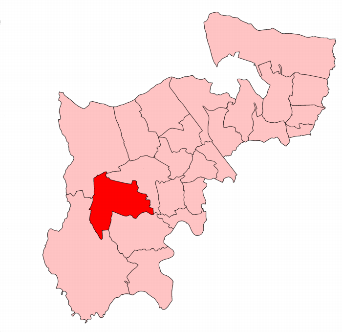 A map of Southall constituency within Middlesex, as it existed from 1945 to 1950.